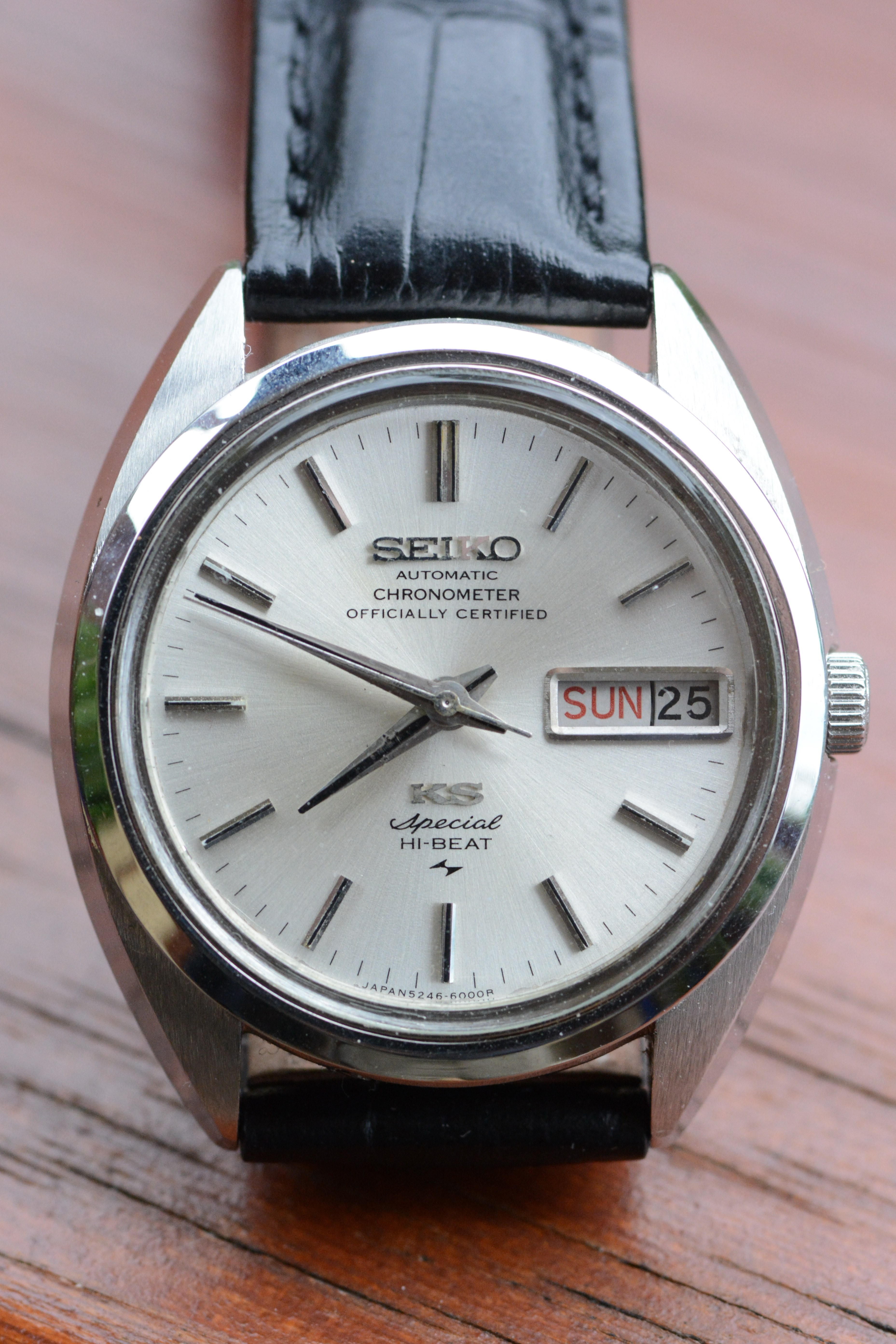 King Seiko Automatic Special Hi-Beat 5246-6000 "Chronometer Officially Certified"